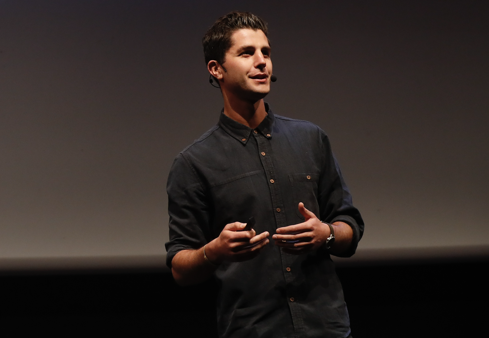 Picture of Ben speaking.